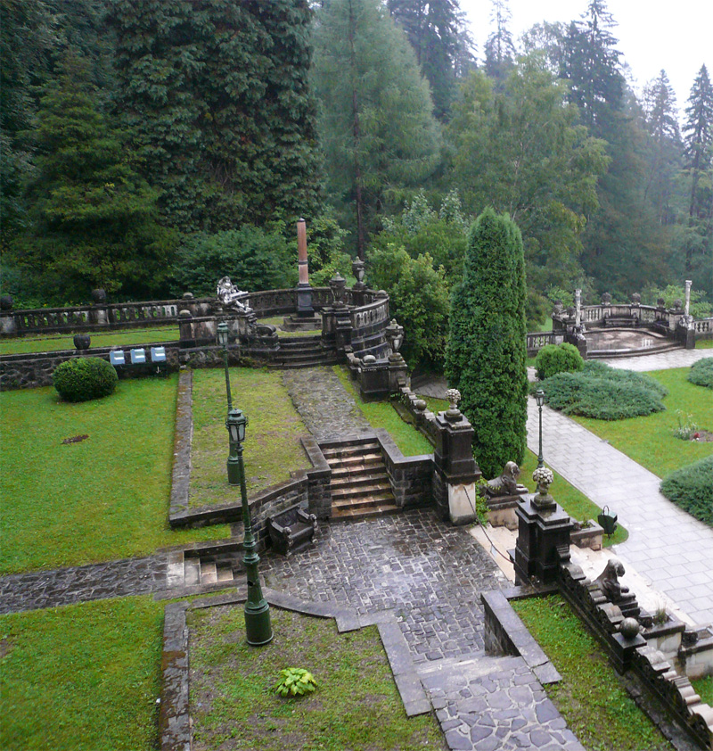 Peleş Castle in Romania